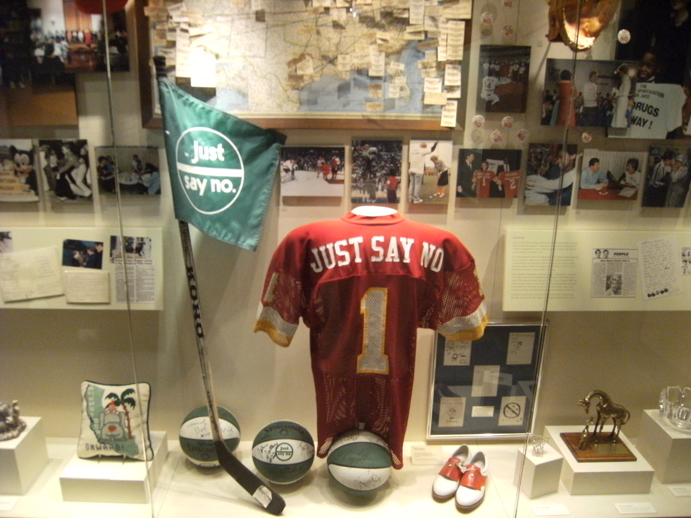 Reagan Library display